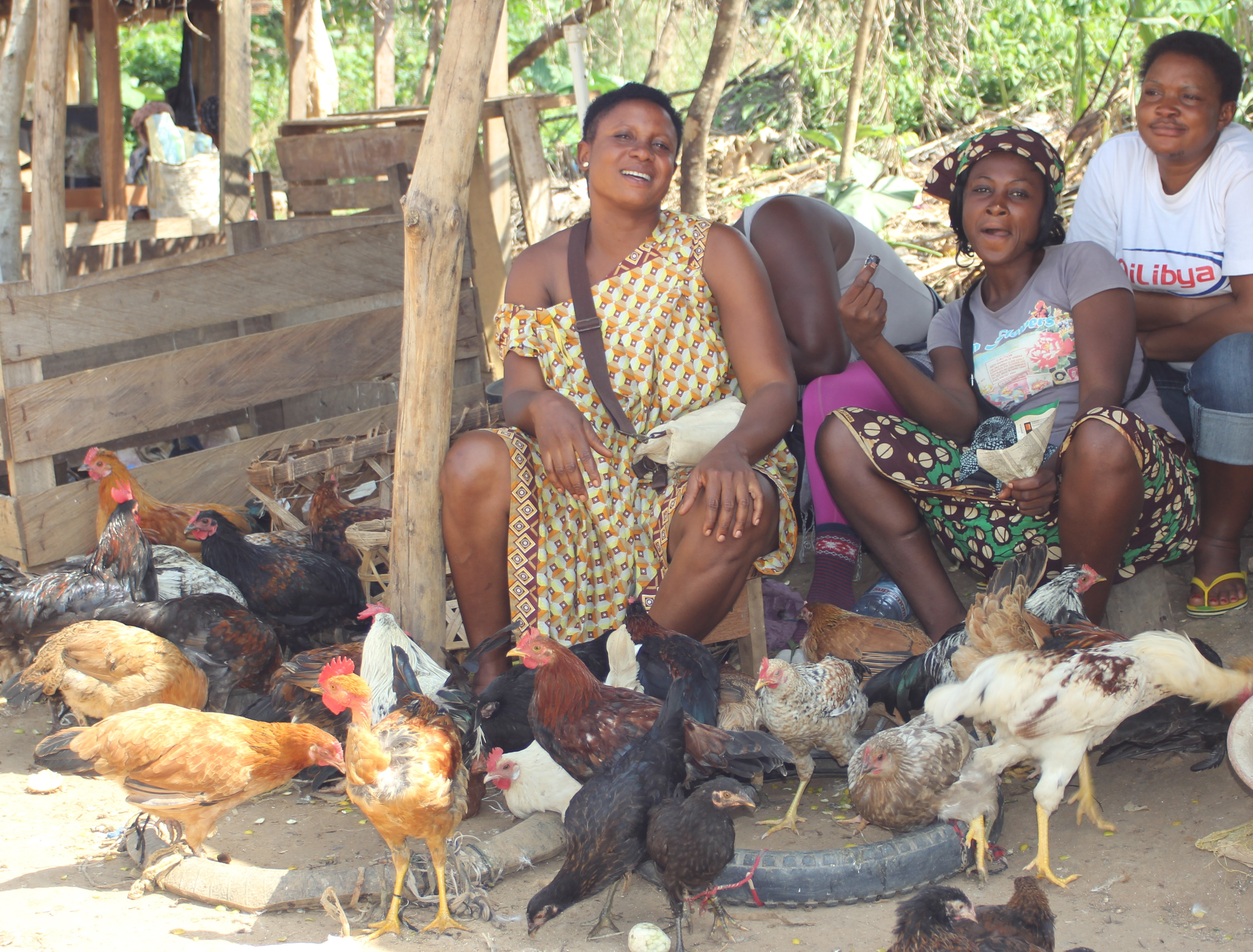 This is an image of "African people at work" from Cameroon